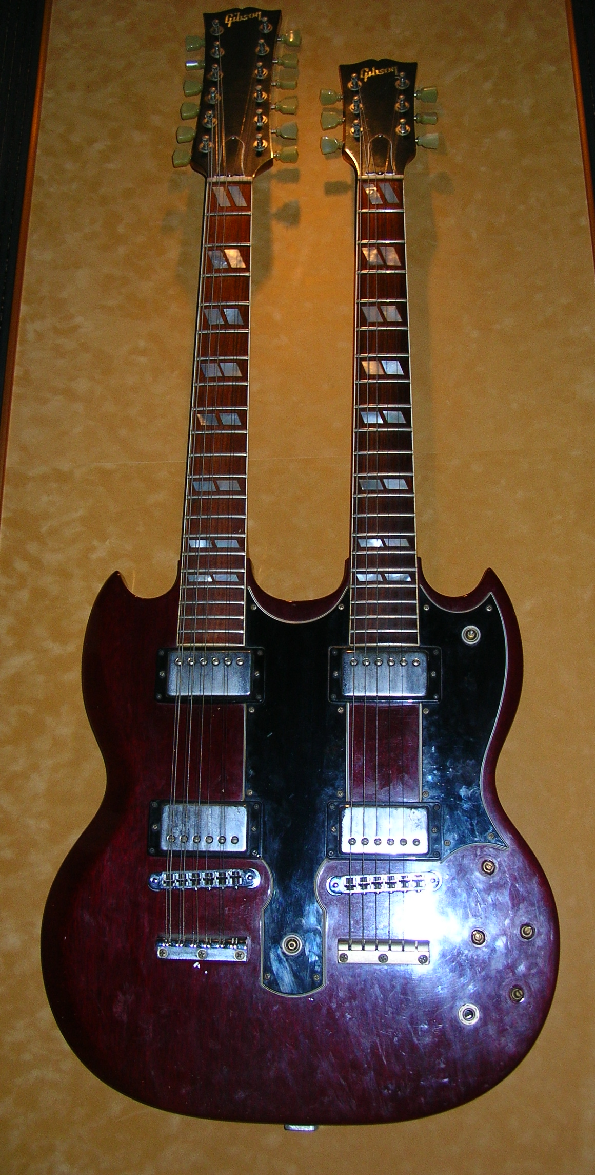 Jimmy Paige's double-neck Gibson guitar at the Hard Rock Cafe Hollywood.